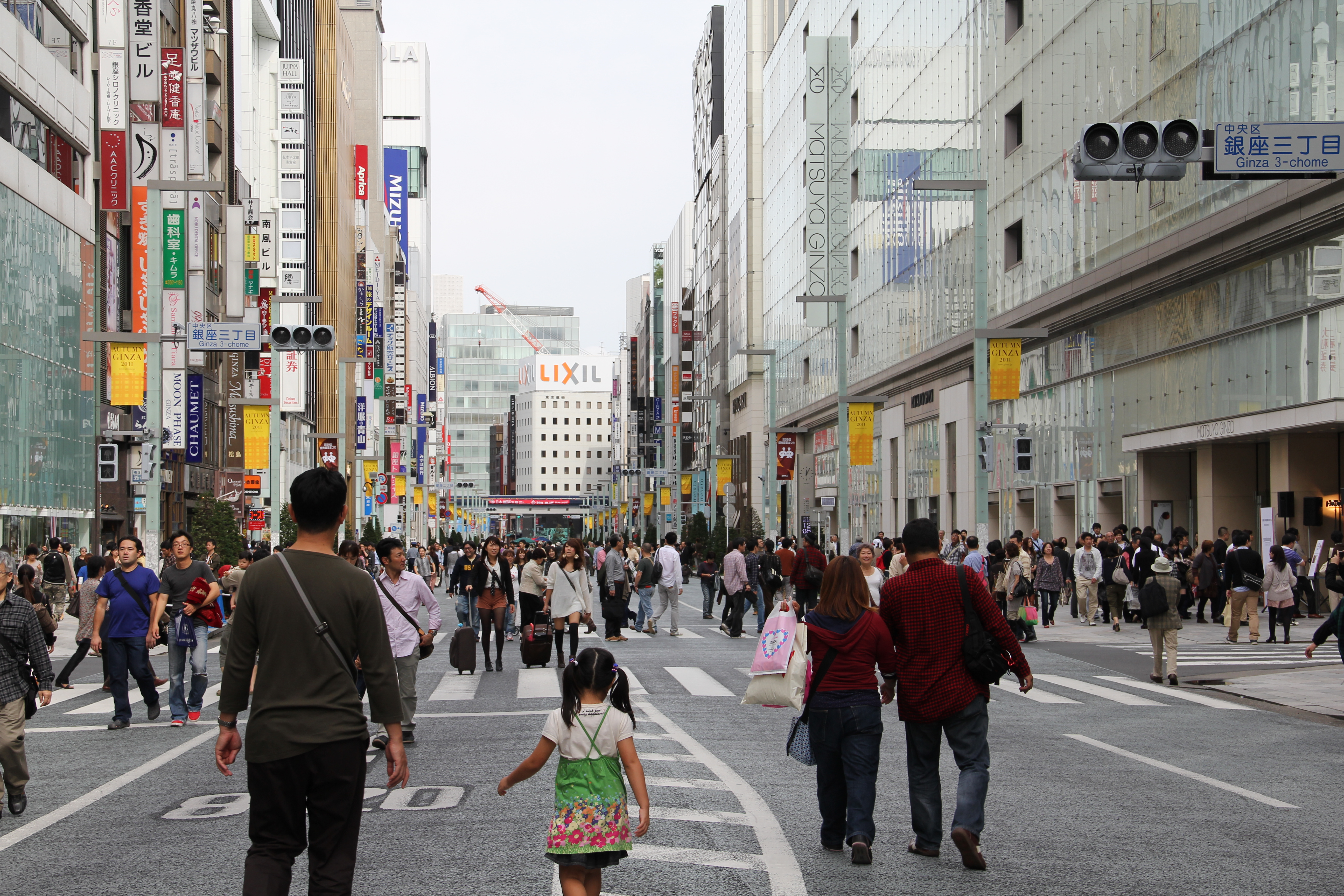 Hokoten means "pedestrian paradise". The term is used to refer to streets that are closed off to vehicle traffic. Each Sunday, from 12:00 noon until 5:00pm, various streets in Ginza are closed off - allowing people to walk along the streets.